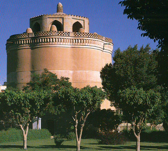 A pigeon house, Isfahan. Photo is by User Zereshk , but was scanned from my hard copy I own.